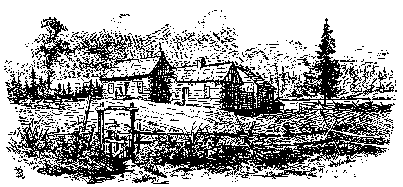 Drawing of Jason Lee's Oregon mission in 1834. From Joseph Gaston's Centennial History of Oregon.